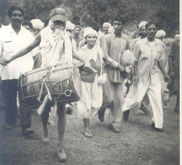 Santh Vinoba Bhave.